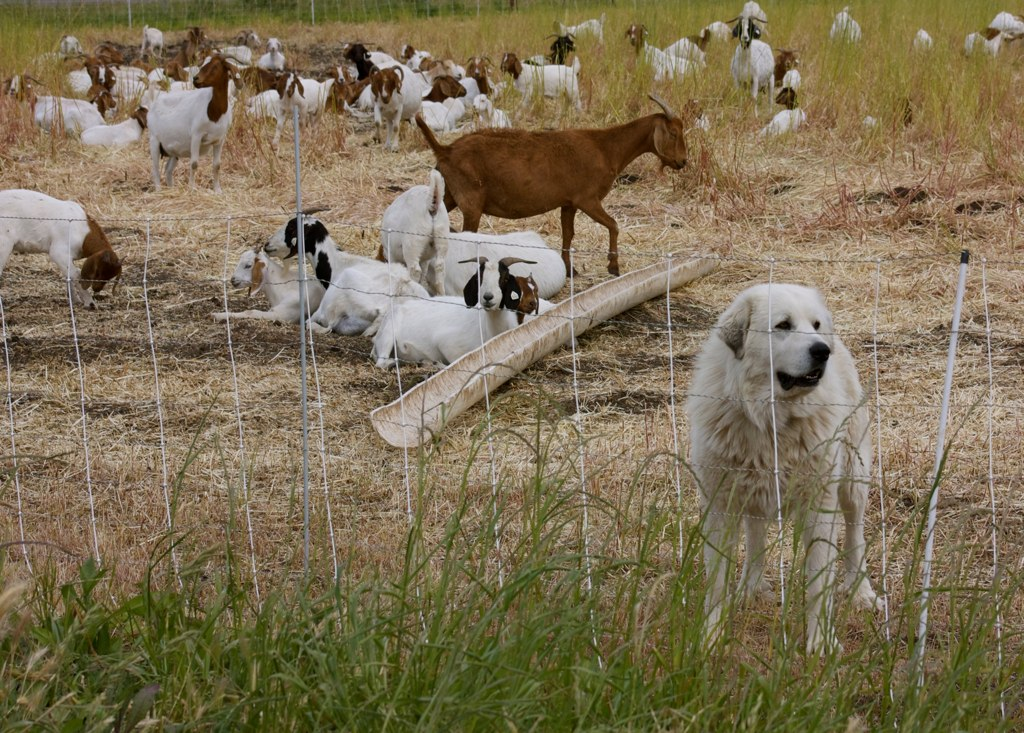 A Great Pyrenees livestock guardian dog and a herd of goats, both enclosed behind electrified fencing.